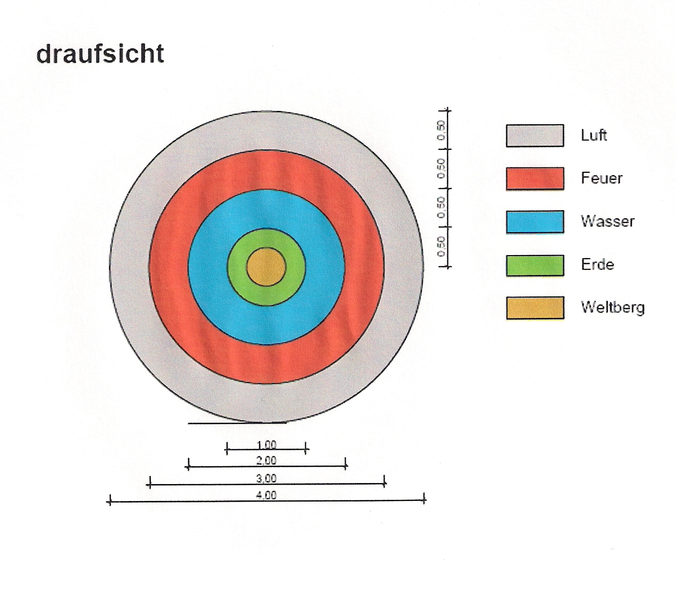 The Tibetan model of the earth